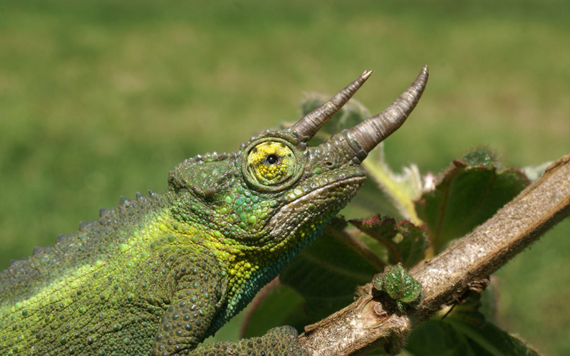 Jackson's Chameleon